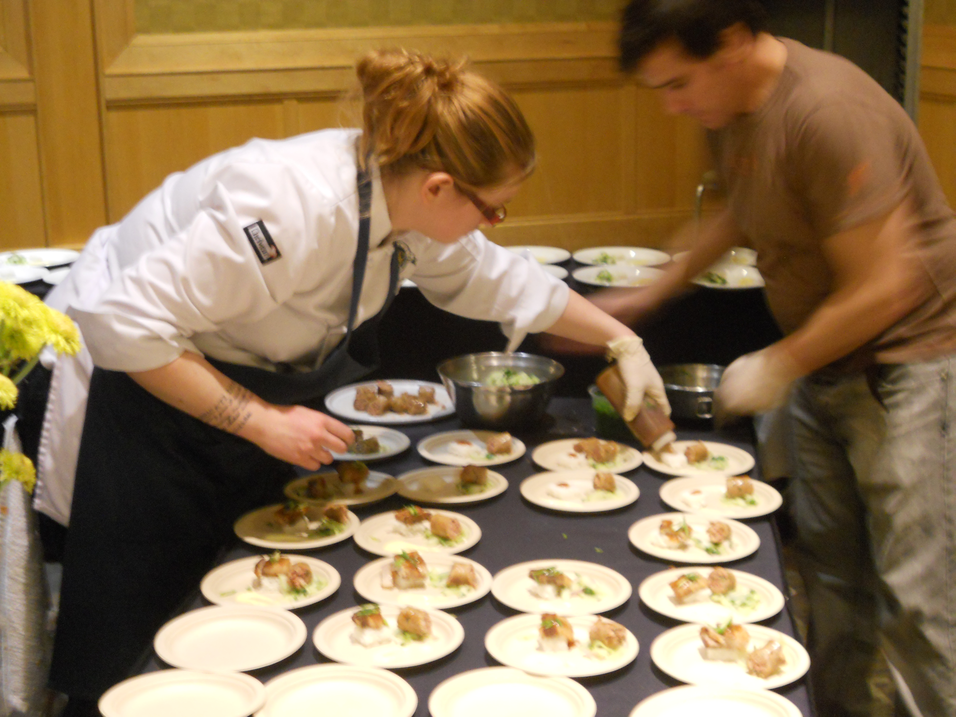 cochon